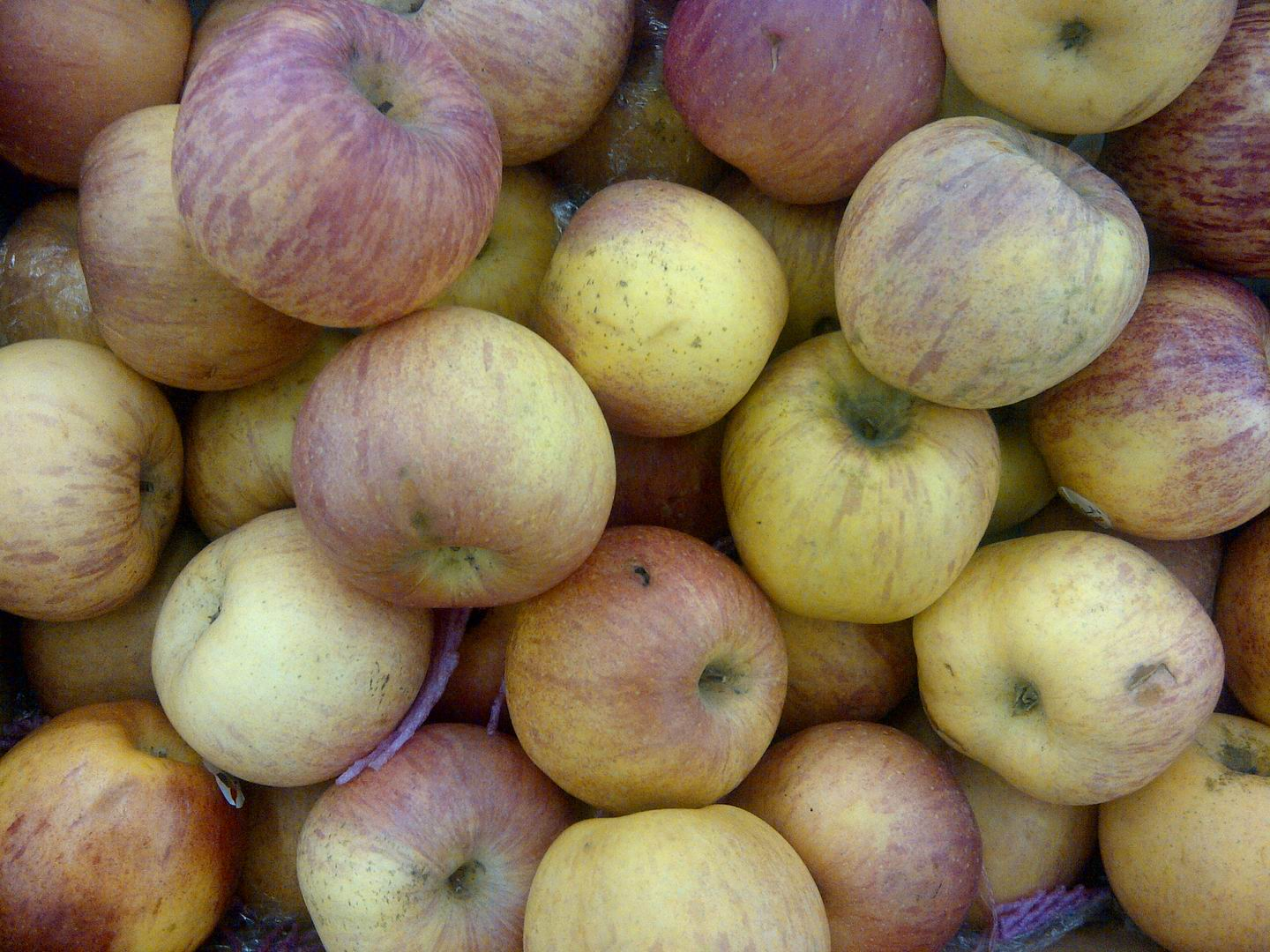 Fiji Apple